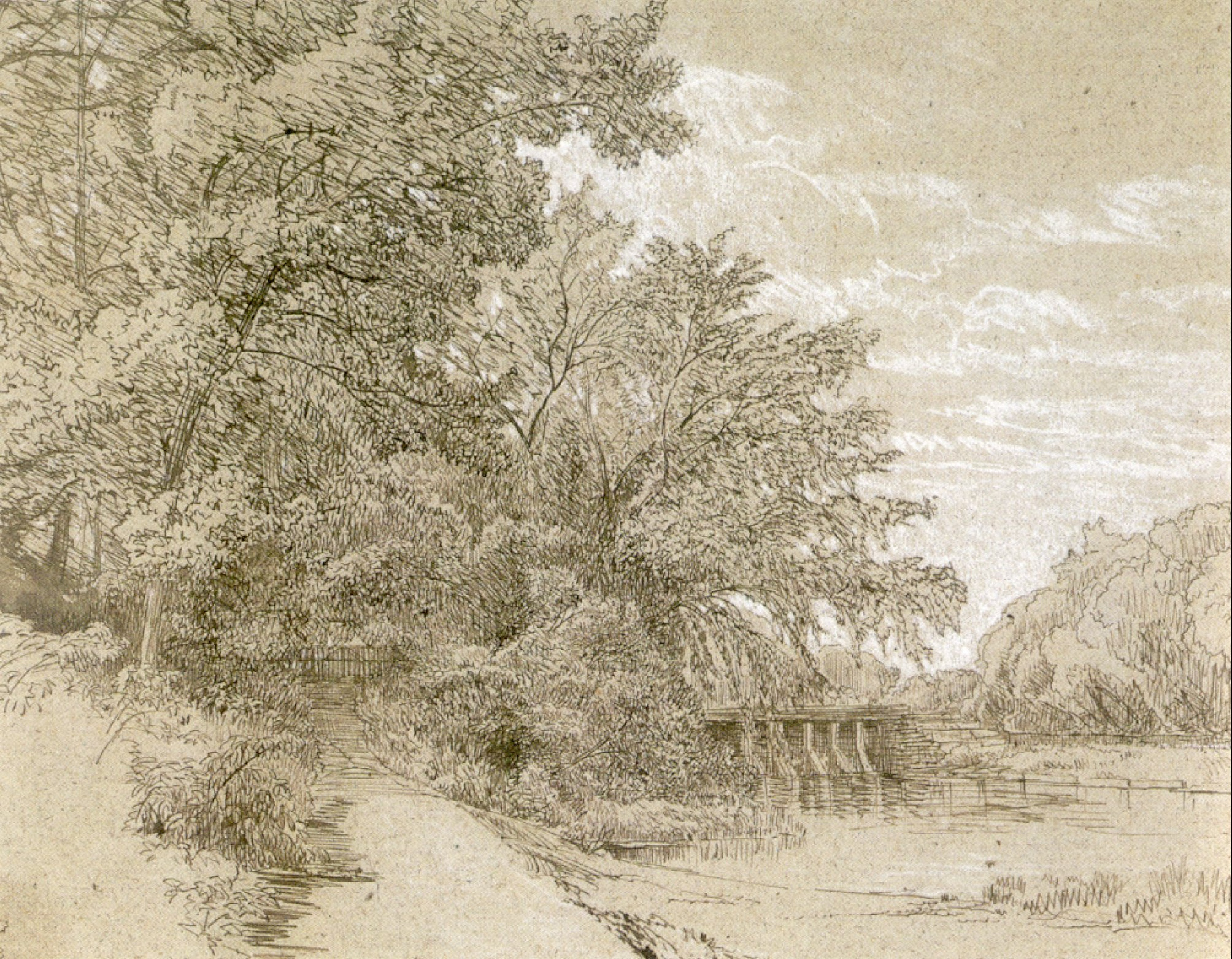 Tariffville, Connecticut, Farmington River, ink with white heightening by Aaron Draper Shattuck, 1867, Honolulu Museum of Art Native nameHonolulu Museum of ArtLocationHonolulu, USACoordinates21° 18′ 14″ N, 157° 50′ 54″ W Established1922Web page control : Q128316 VIAF: 818145858110423022196 ISNI: 0000 0004 4661 5836 LCCN: n2013015284 NRHP: 72000415 GND: 1063109698 WorldCat institution QS:P195,Q128316